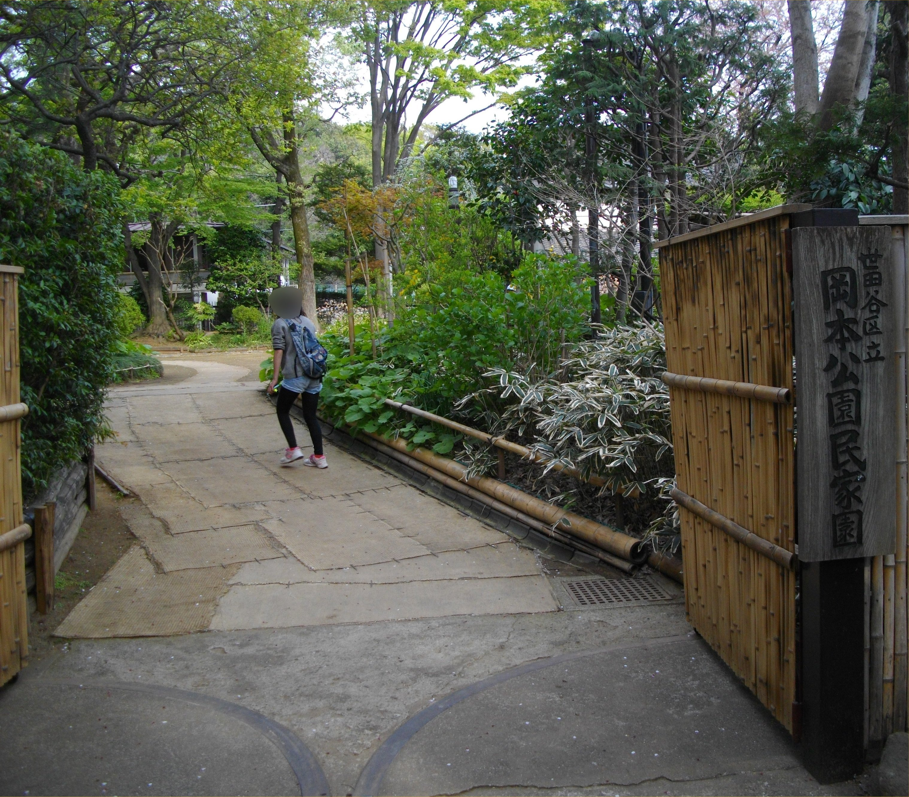 Entrance of the Okamoto Park's Old Farmhouse Garden in Setagaya Ward, Tokyo, Japan